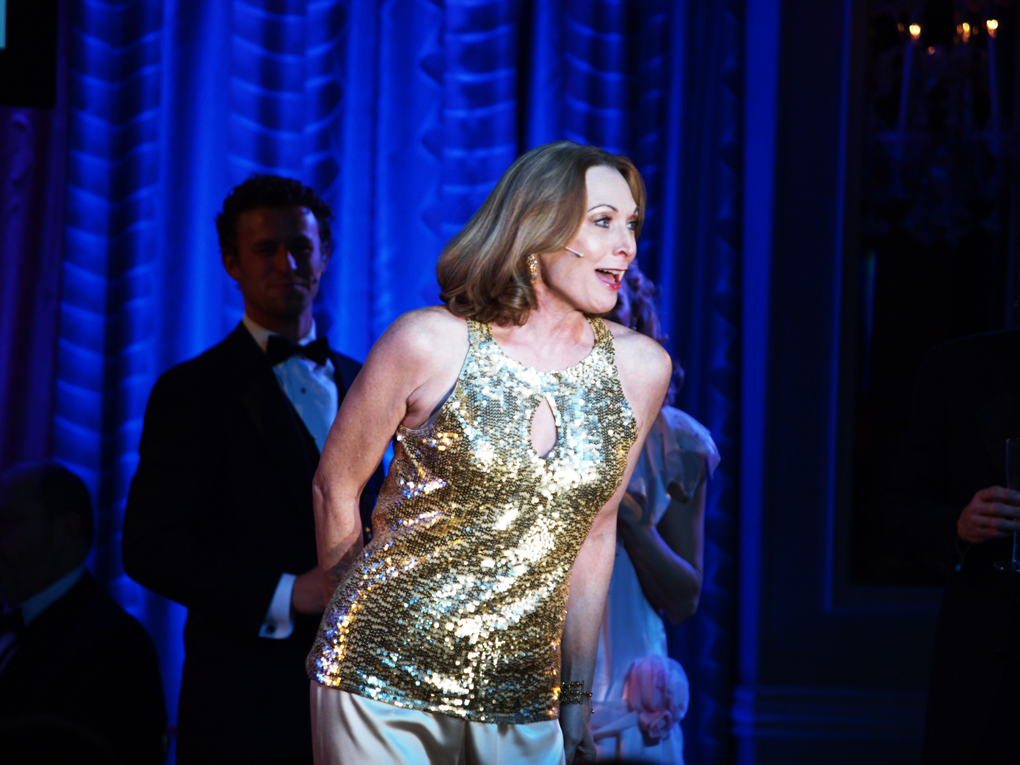 Dee Hoty and cast at the Drama League Benefit Gala Honoring Angela Lansbury, February 8, 2010. The Pierre, New York City, photo by Rob Rich